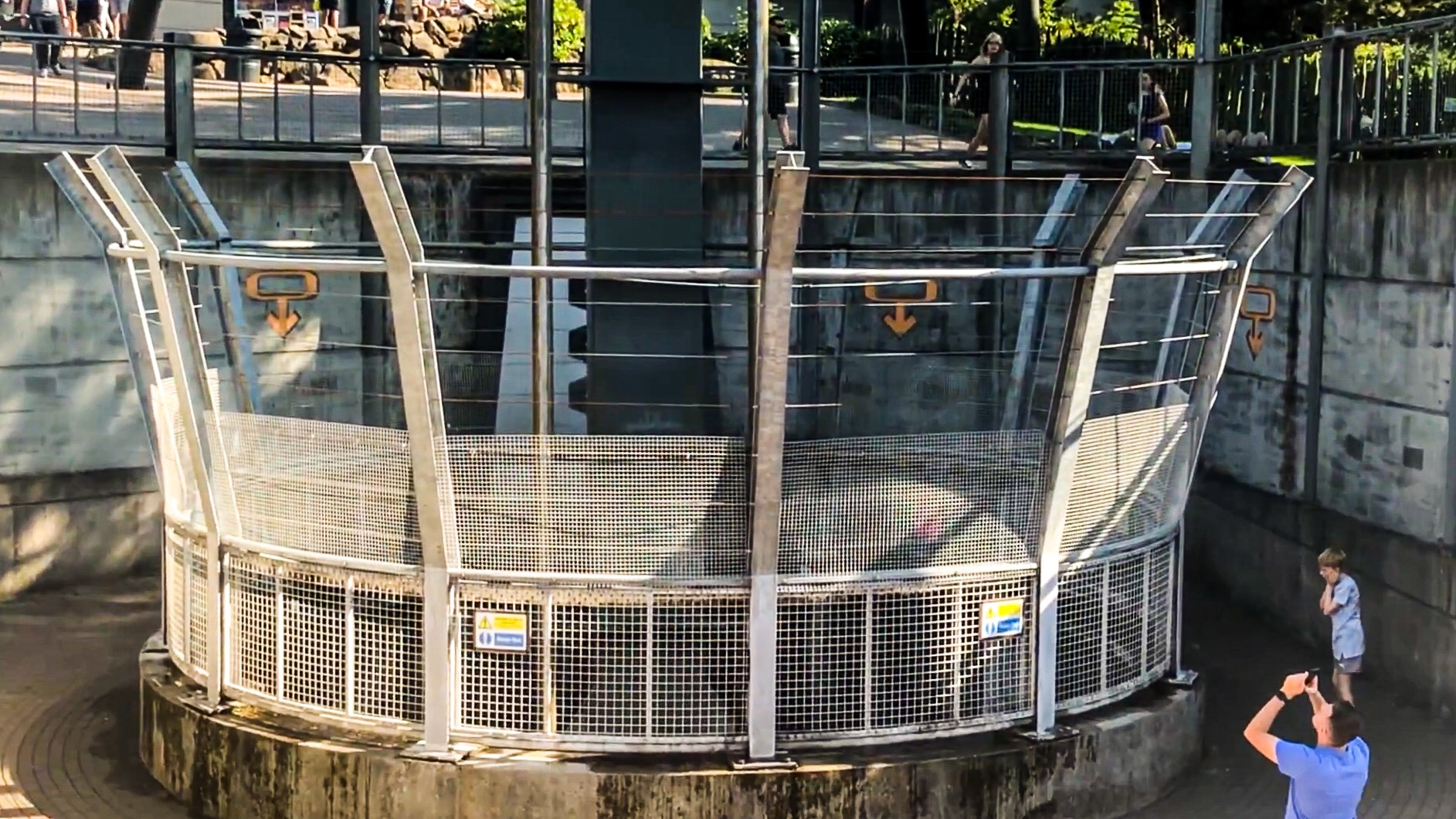 The tunnel at the bottom of the vertical drop of 'Oblivion' at Alton Towers Resort